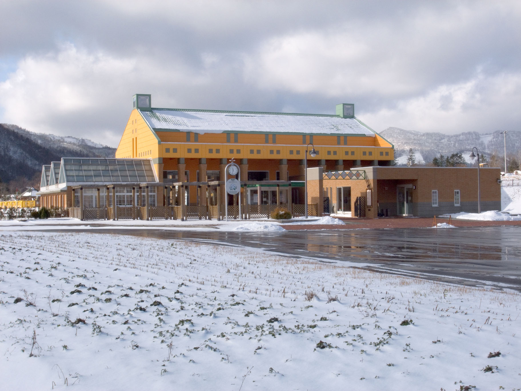 Roadside station Nishiokoppe Kamu, Nishi-Okoppe, Hokkaido, Japan